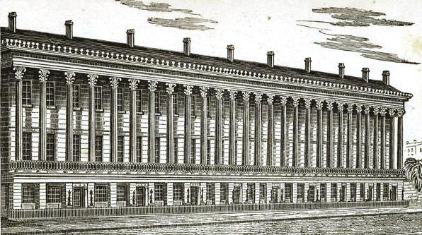 Image Title: La Grange Terrace, La Fayette Place, city of New York. Alternate Title: La Grange Terrace, Lafayette Place, city of New York. Specific Material Type: Prints Item Physical Description: 1 print : b&w ; 10 x 18 cm. (4 x 7 in.) Notes: Written on border: "Built 1830s." Foxing on image. Source: Mid-Manhattan Picture Collection / New York City -- houses -- 1800s Source Description: 3 folders (102 pictures) Location: Mid-Manhattan Library / Picture Collection Catalog Call Number: PC NEW YC-Hou-18 Digital ID: 805433 Record ID: 692766 Digital Item Published: 10-28-2005; updated 8-10-2010